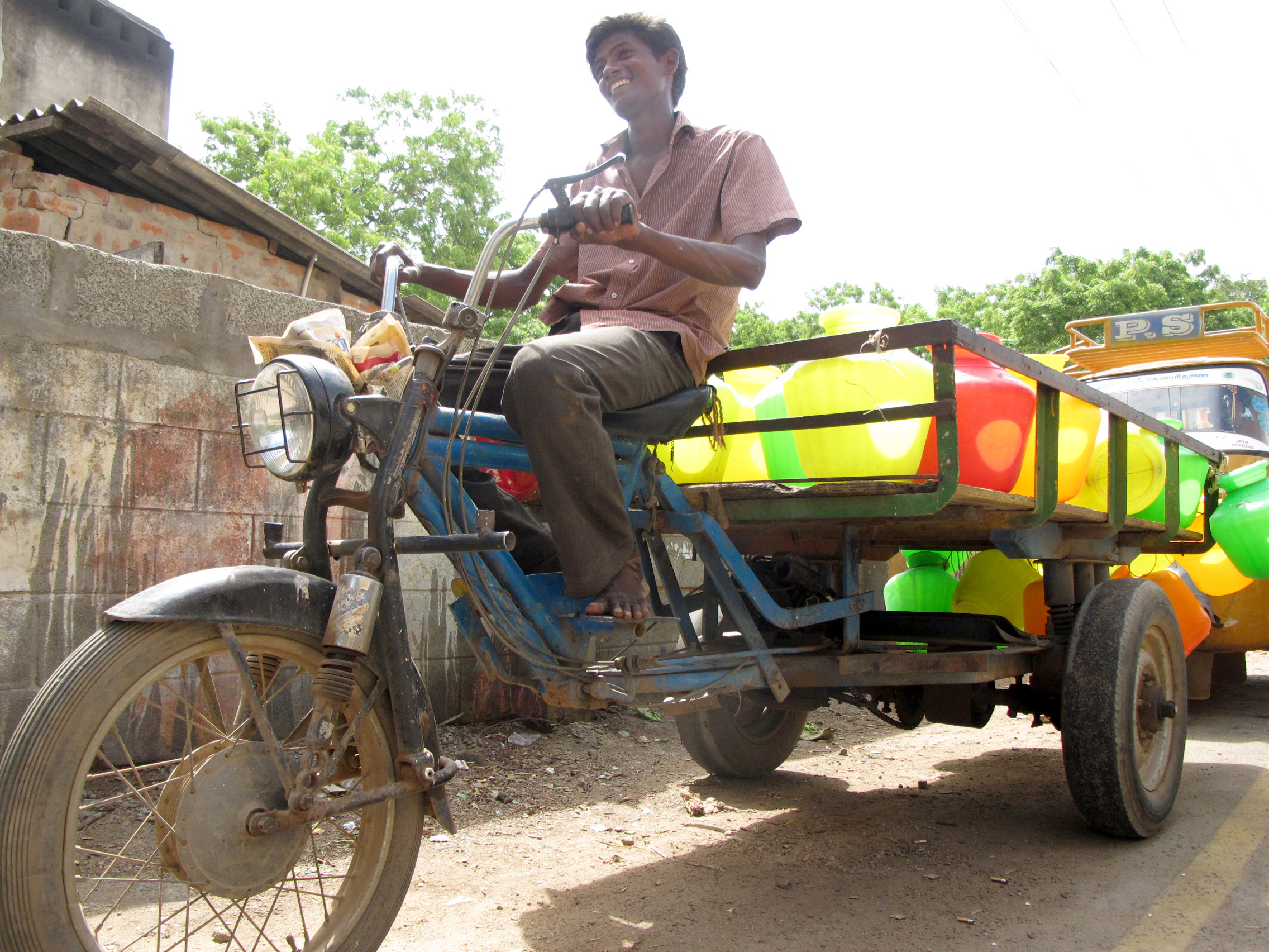 Meen Body Vandi fish bed vehicle Jugaad tricycle trike conversion three wheeler Rajdoot TVS Tamilnadu India - மீன் பூடி வண்டி Etan Doronne